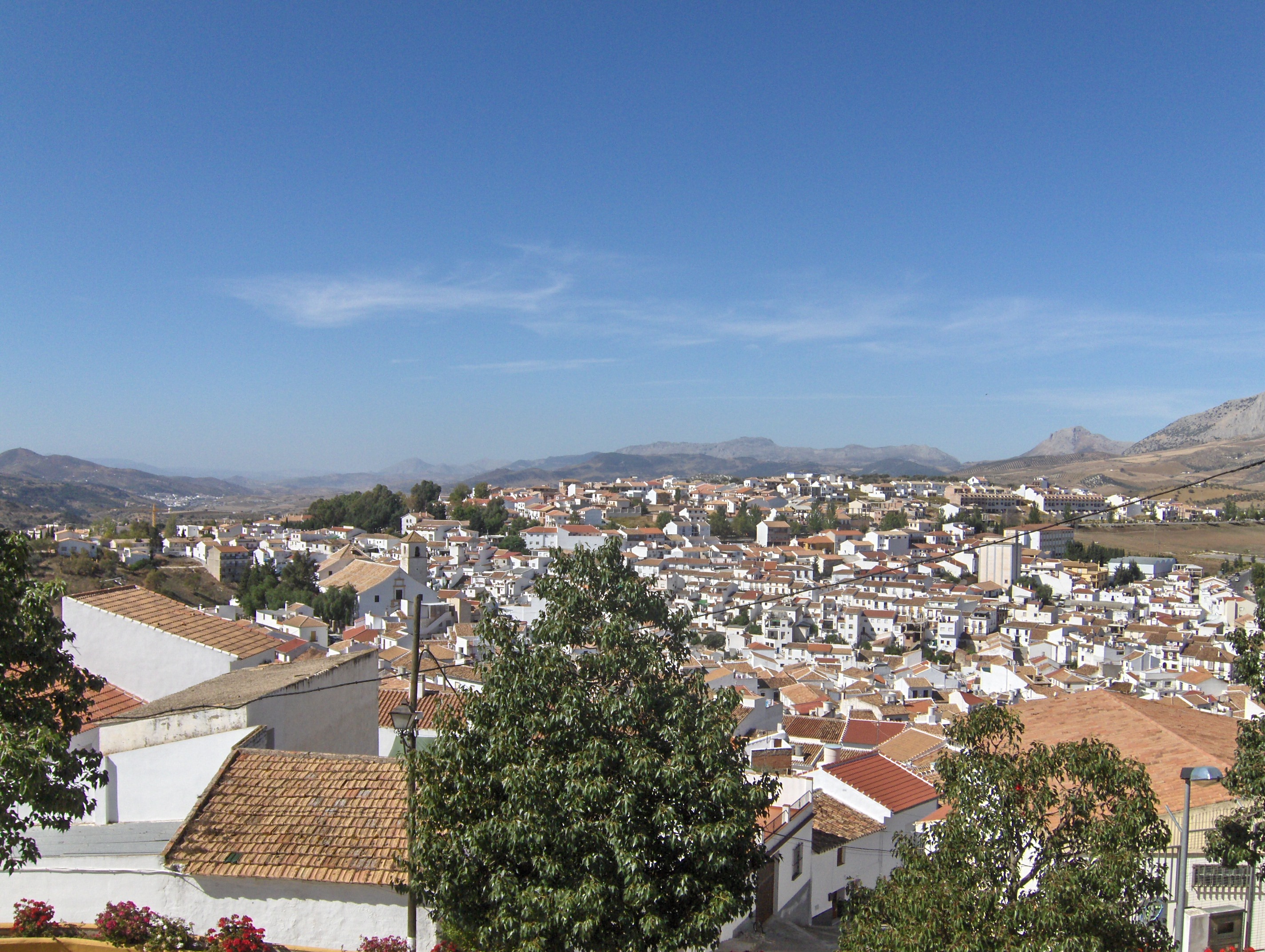 View of Colmenar